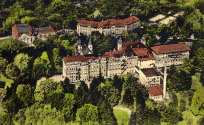 Picture of Clarke College before the 1984 fire on a postcard